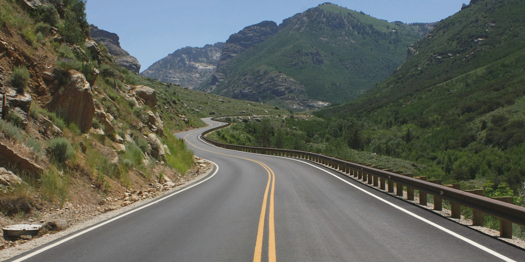 Lamoille Canyon Road, Humboldt-Toiyabe National Forest, Nevada, USA